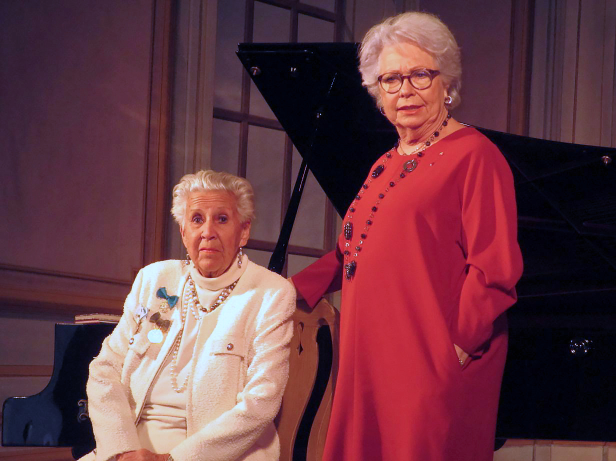 With her Chairman, Christina Magnuson (right), Kjerstin Dellert celebrates 40th anniversary of her theaterPlace: Ulriksdal Palace Theater, Solna, Sweden